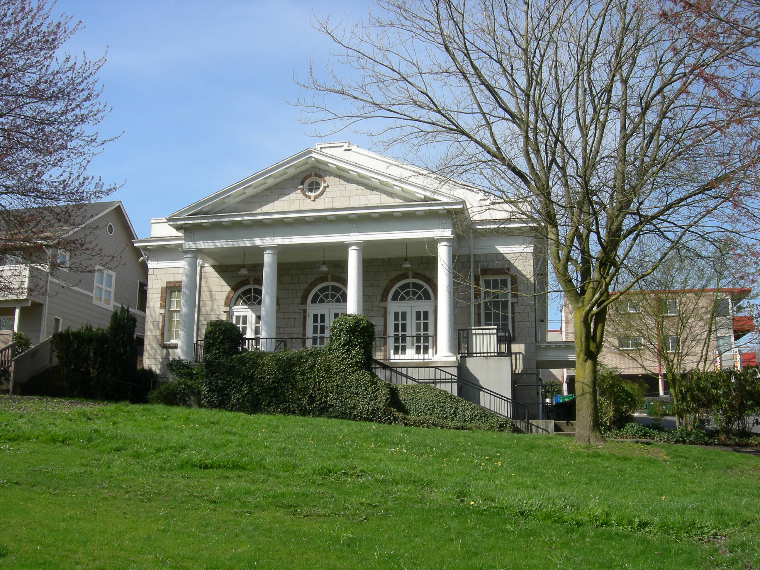 Rainier Arts Center, Columbia City, Seattle, Washington. The 1921 neo-Palladian building was originally a Christian Science Church. for more info about the building.